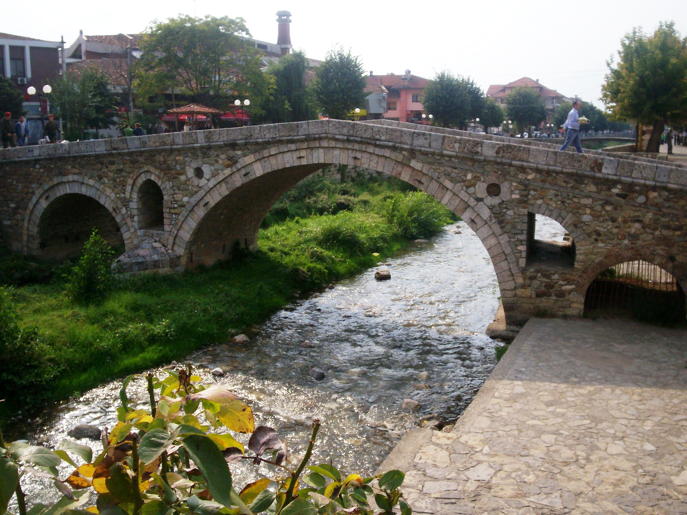 A Bridge in Prizren and the White Drin River.